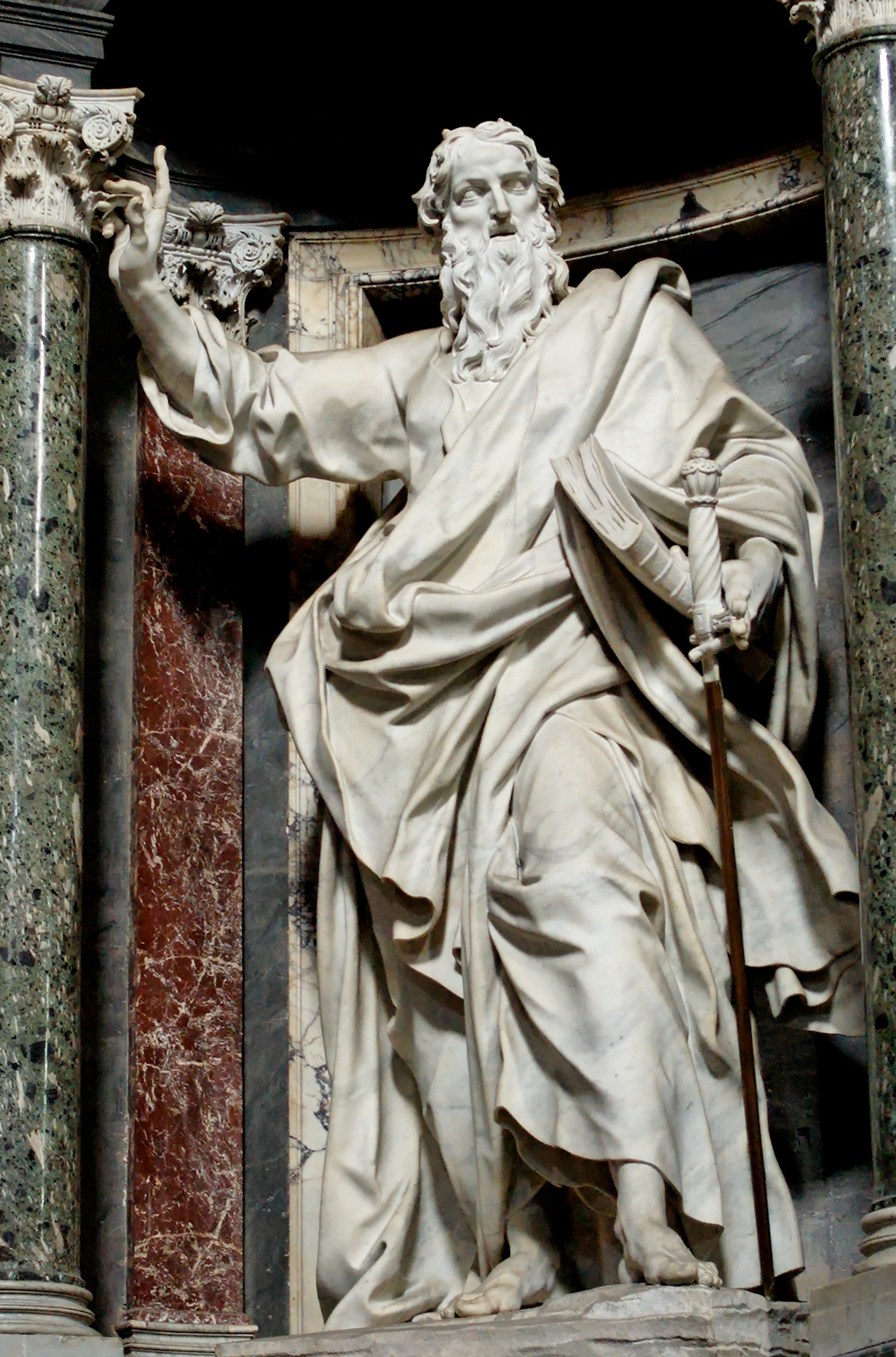 St. Paul by Pierre-Étienne Monnot. Nave of the Basilica of St. John Lateran (Rome).